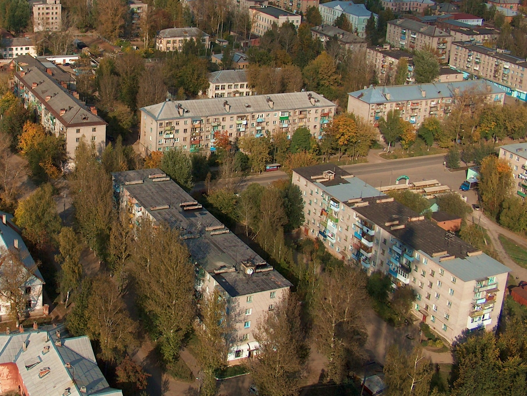 Behtereva Street (Rzhew)